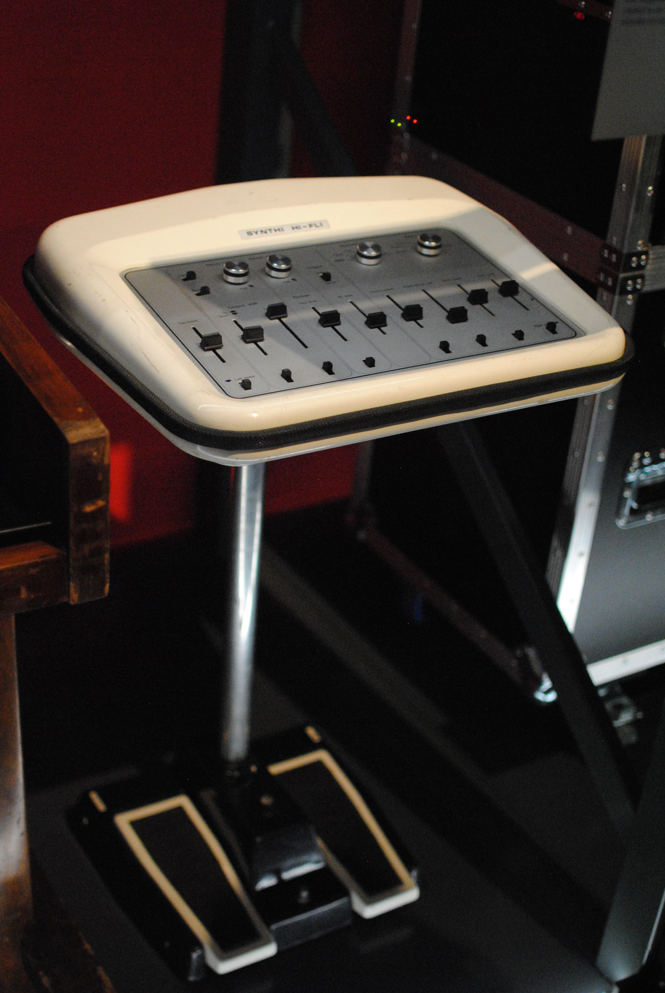 David Gilmour's 'EMS Synthi Hi-Fli' (aka 'The Sound Freak'), purchased 1972, used on 'Dark Side of the Moon'; displayed at the Pink Floyd: Their Mortal Remains exhibition at the Victoria and Albert Museum.